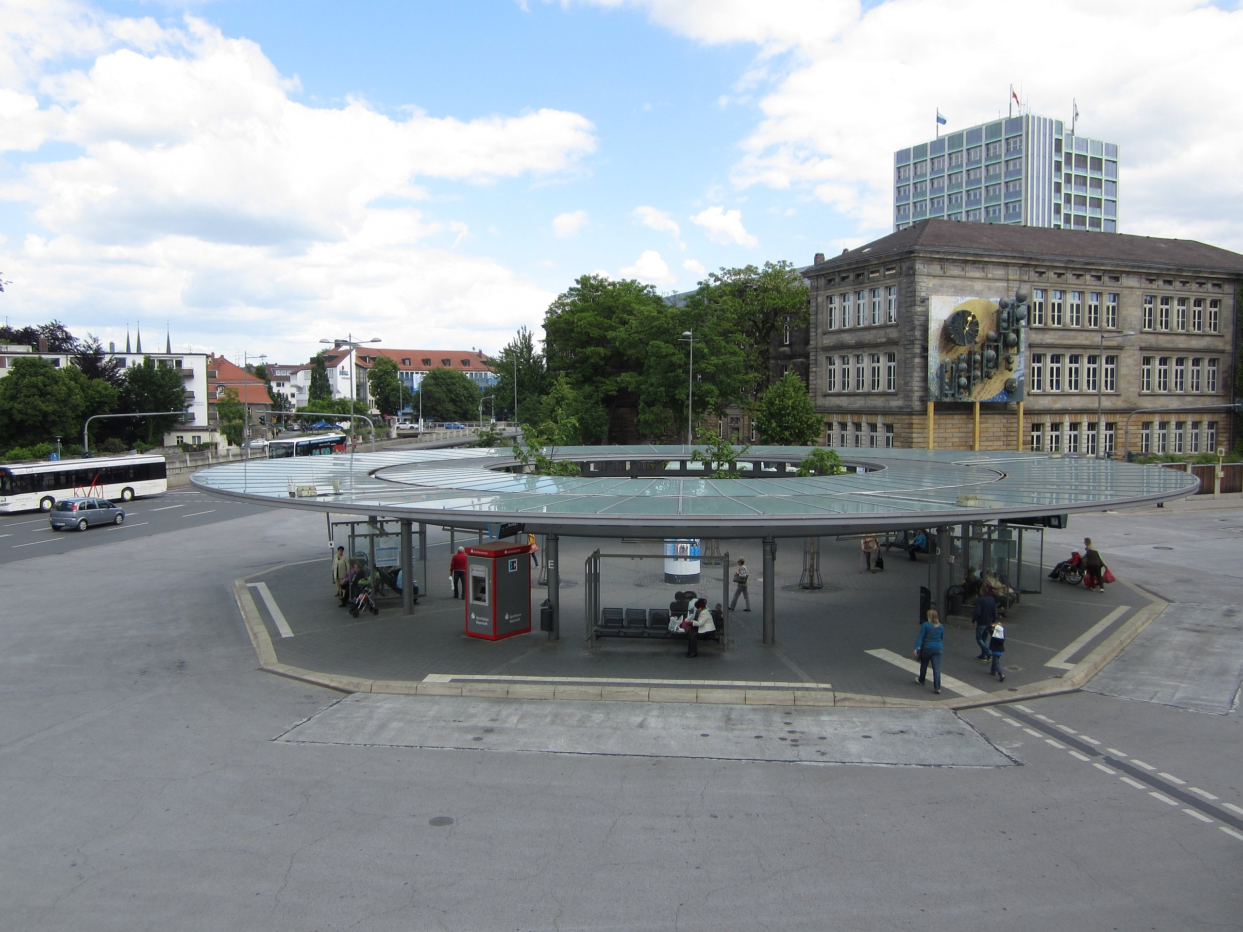 Central bus station in Bayreuth